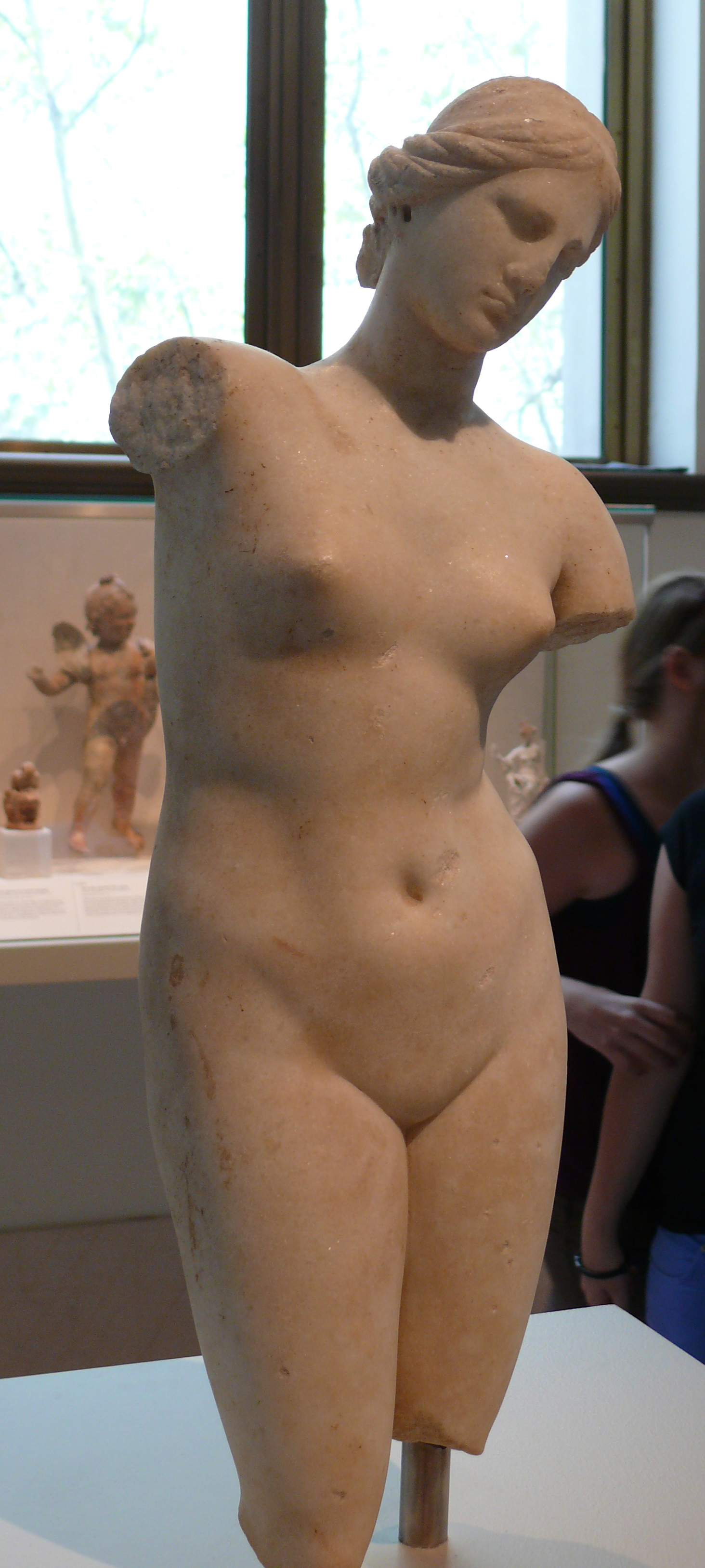 Marble statue of Aphrodite Anadyomene (hair binding) in the Metropolitan Museum of Art, New York, NY. Greek, hellenistic 2nd century BC provenance: gift of John Cross acquisition number: 50.10